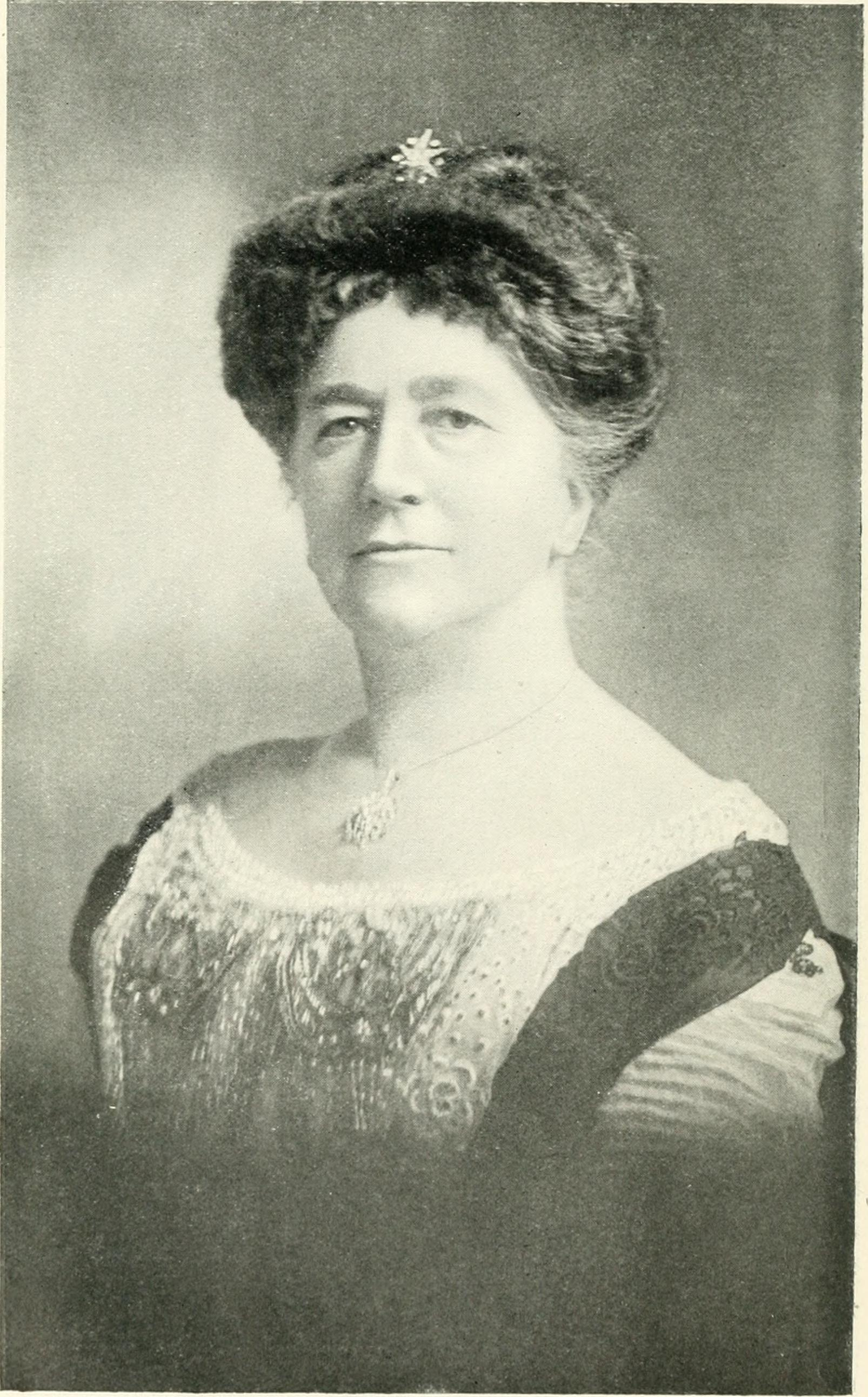 Lady WILLIAMS (ca 1911) Title: Newfoundland in 1911, being the coronation year of King George V. and the opening of the second decade of the twentieth century Year: 1911 (1910s) Authors: McGrath, P. T. (Patrick Thomas), b. 1868 Subjects: Newfoundland and Labrador Publisher: London : Whitehead, Morris & Co., Ltd. Text Appearing Before Image: Sir RALPH CHAMPNEYS WILLIAMS, K.C.M.G. Phoio.) IHollovay. Text Appearing After Image: Lady WILLIAMS. Photo.2 (Parsons. 33 affairs, Sir Edward Morris, since assuming office, has leftnothing undone to present its resources and possibilitiesin the proper light before the outside world, andespecially before the investing communities of England,Canada and the United States. In the newspapers andmagazines, by interviews and addresses, by courtesy tovisitors and by facilitating the inquiries of writers andscientists, he has helped to gain attention for the colony^and to imbue all who come to its shores with the well-founded belief that it is advancing by leaps and boundSalong the highway of progress in the direction of abidingmaterial betterment — as everything goes to show.Because of Newfoundlands varied importance from aninternational view point, owing to its Erencli Shore and American Eishery questions, the present Premierhas enjoyed an exceptionally favourable training for theposition he occupies, having been a delegate to GreatBritain more than once in relation to thes